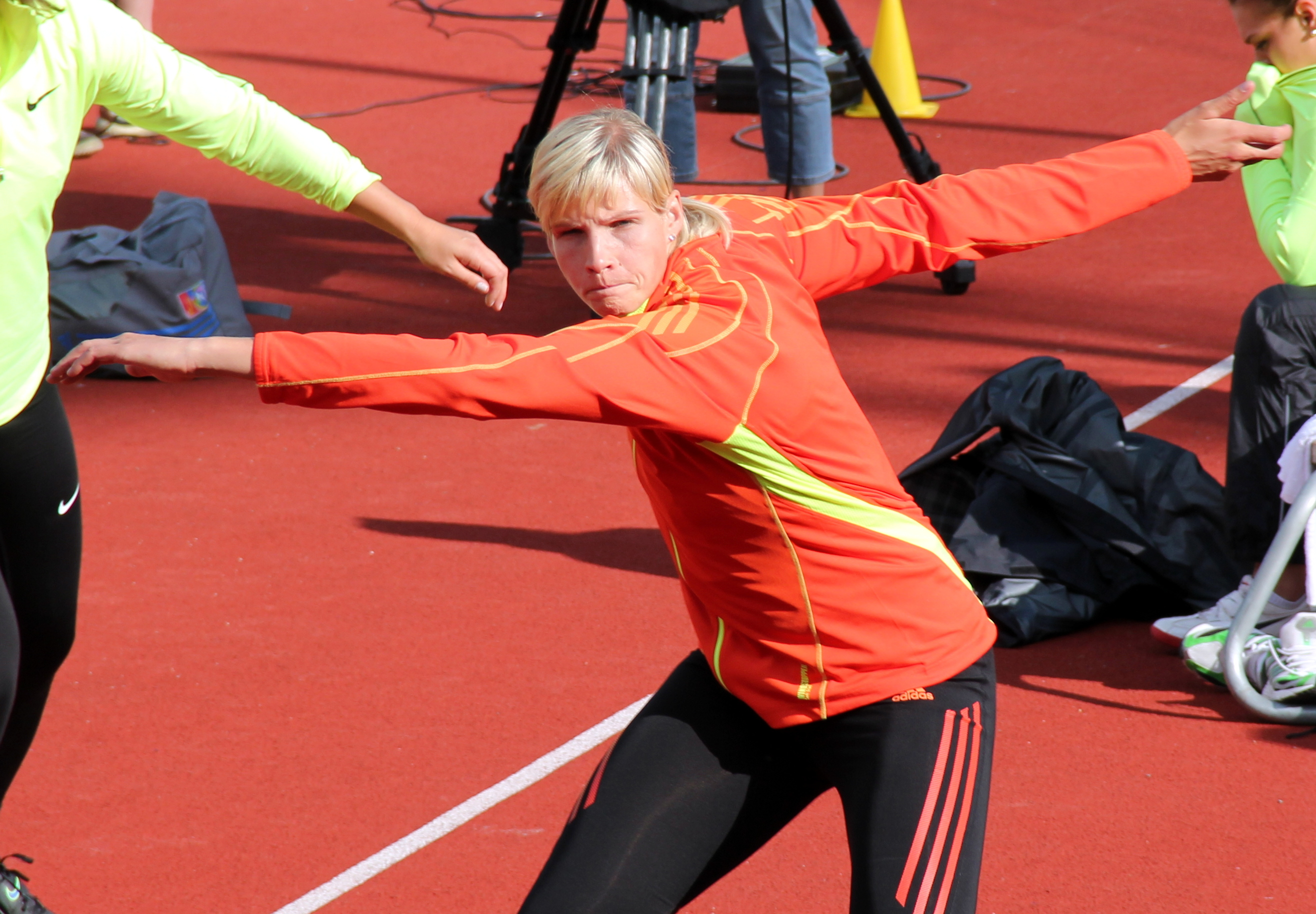 Nadine Muller at the 2012 Bislett Games